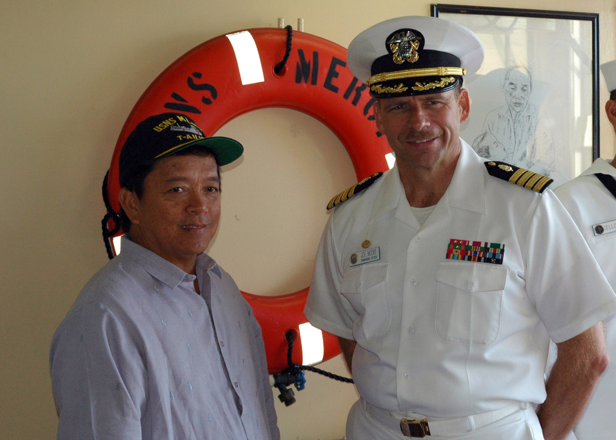 Pearl Harbor, Hawaii (May 4, 2006) - Commanding Officer of the Medical Treatment Facility Capt. Joseph Moore, assigned aboard the Military Sealift Command (MSC) hospital ship USNS Mercy (T-AH 19) poses for a photo opportunity with Philippine Consul Gen. Ariel Abadilla on the quarterdeck of Mercy during a tour. Mercy is on a five-month deployment to areas of Southeast Asia and the Pacific Islands where its crew and several health and civic related organizations will provide humanitarian assistance and conduct various community projects. U.S. Navy photo by Chief Journalist Steven Robinson (RELEASED)